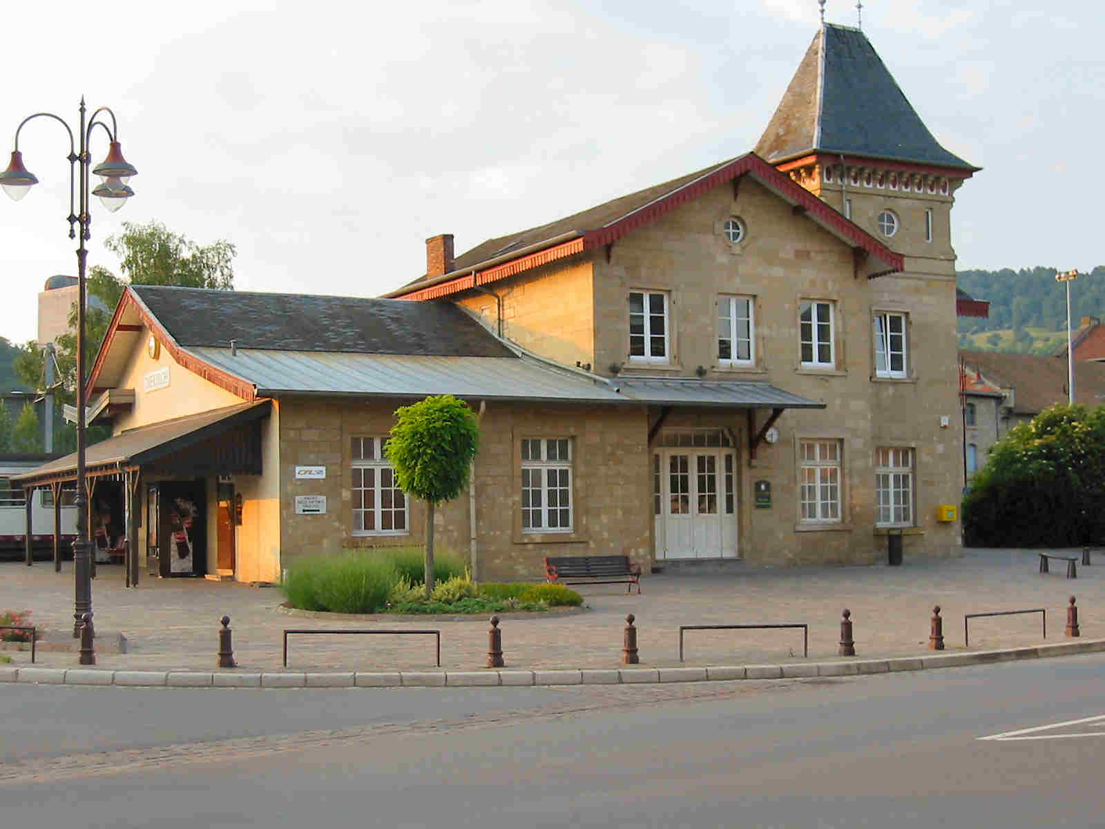 Diekirch Railwaystation front side